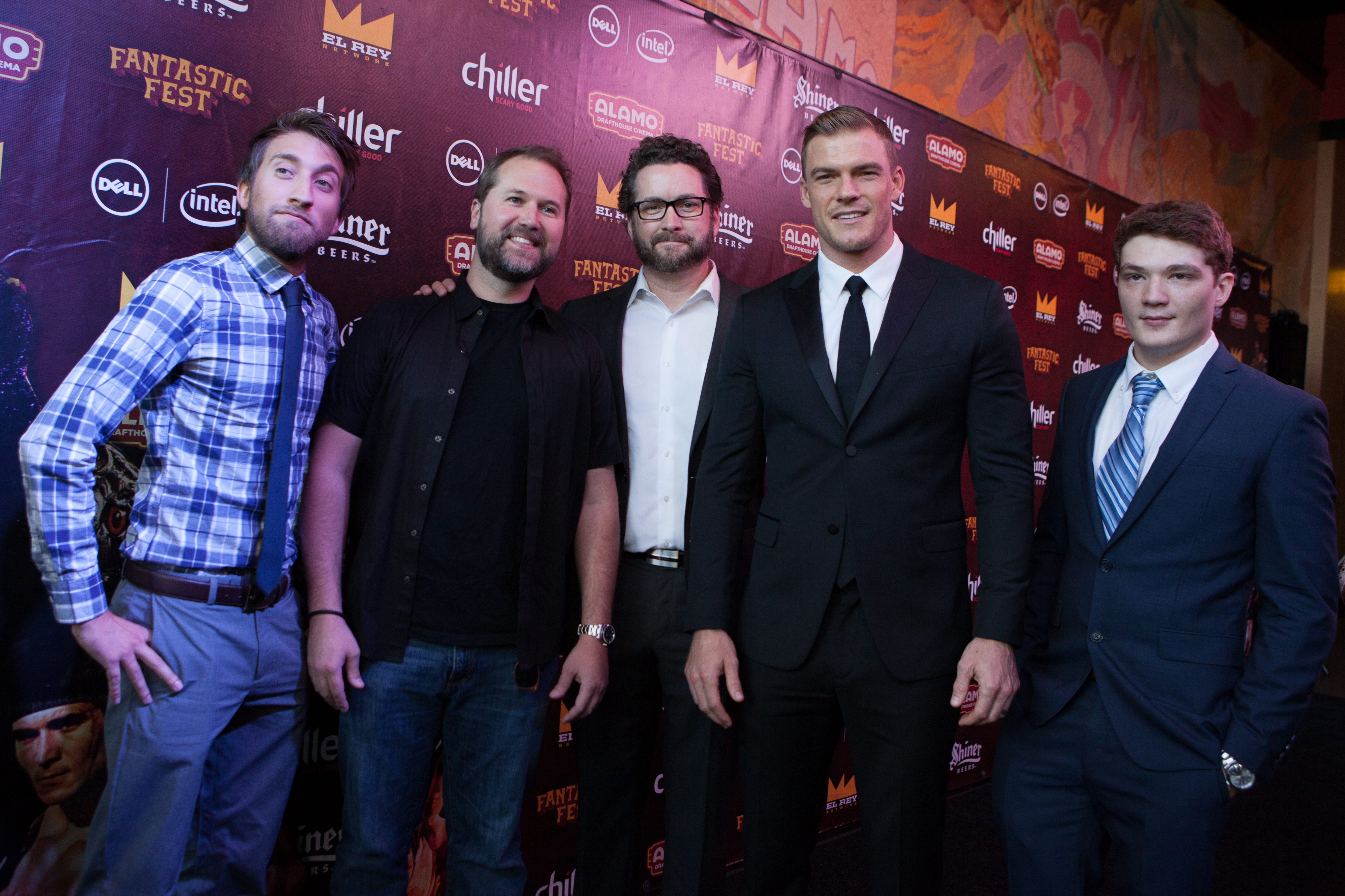 The cast and director of Lazer Team on the red carpet at the film's premiere at Fantastic Fest 2015. From left to right, pictured is Gavin Free, Matt Hullum, Burnie Burns, Alan Ritchson, and Michael Jones.